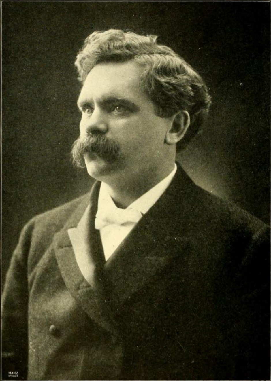 A Photo of Brigham Henry Roberts, a LDS leader, historian, and politician who published a six-volume history of The Church of Jesus Christ of Latter-day Saints (LDS Church) and was denied a seat as a member of United States Congress because of his practice of plural marriage.